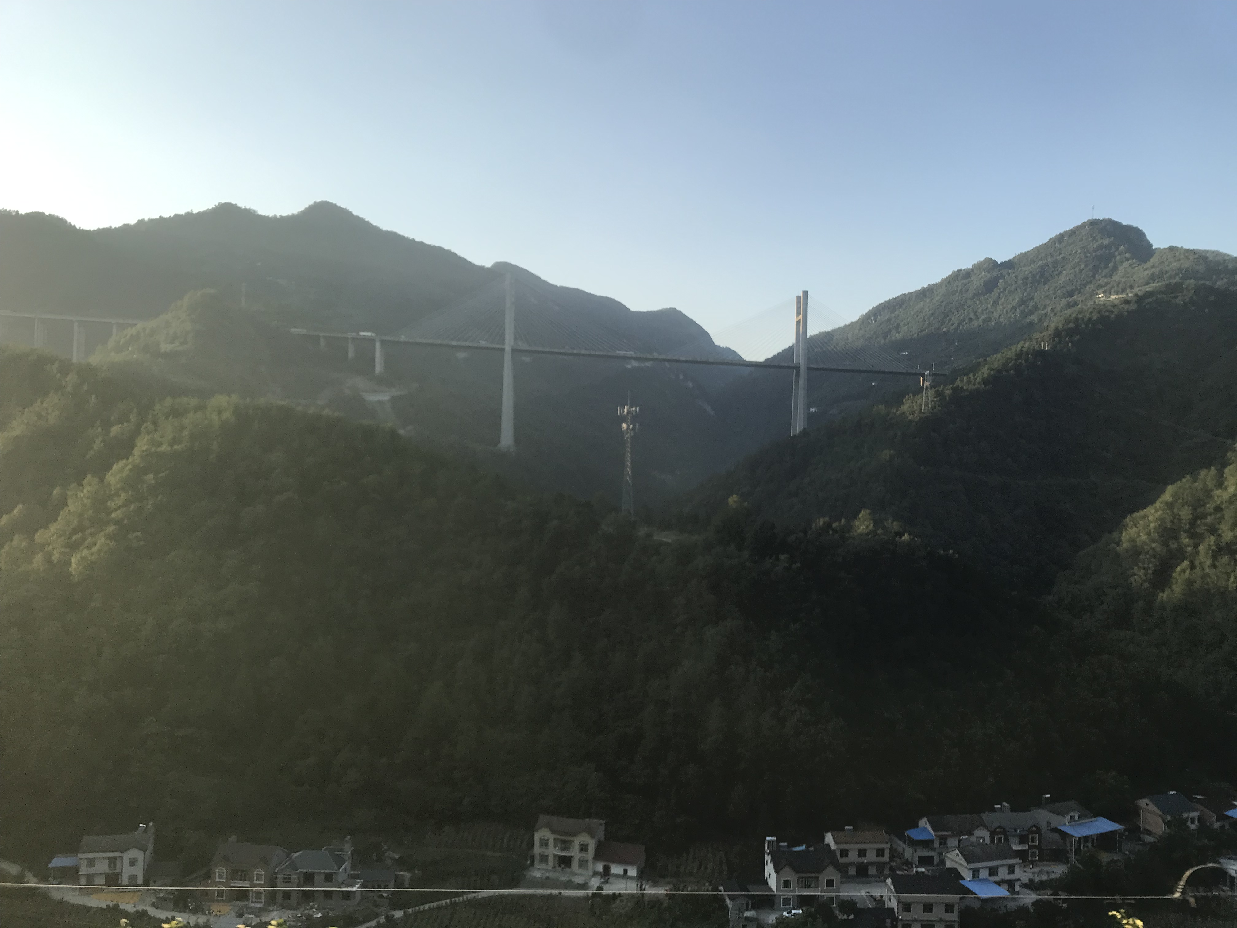 201908 Tieluoping Bridge of G50 in Langping Town